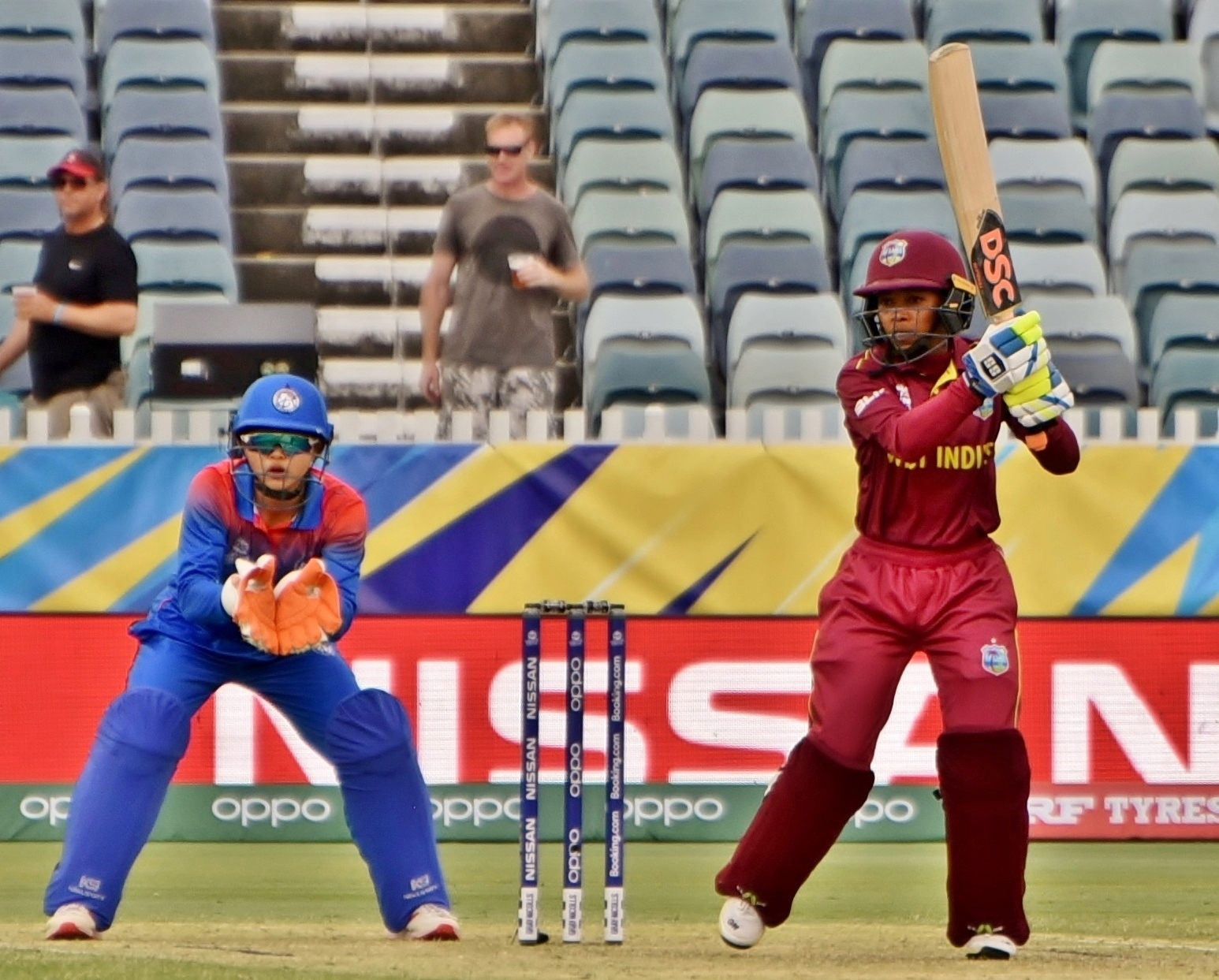 Shemaine Campbelle batting for the West Indies against Thailand during their 2020 ICC Women's T20 World Cup match at the WACA Ground in Perth, Australia. The (other) wicket-keeper is Nannapat Koncharoenkai.